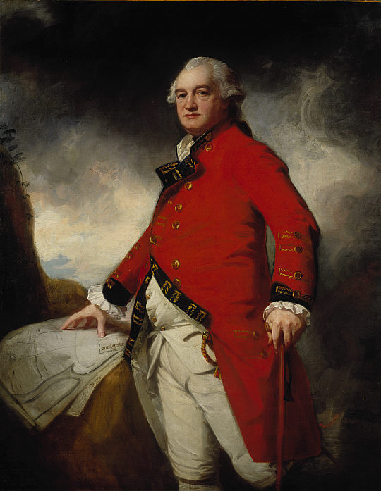 Major-General James Stuart (d. 1793), about 1735 - 1793. Commander-in-Chief in Madras